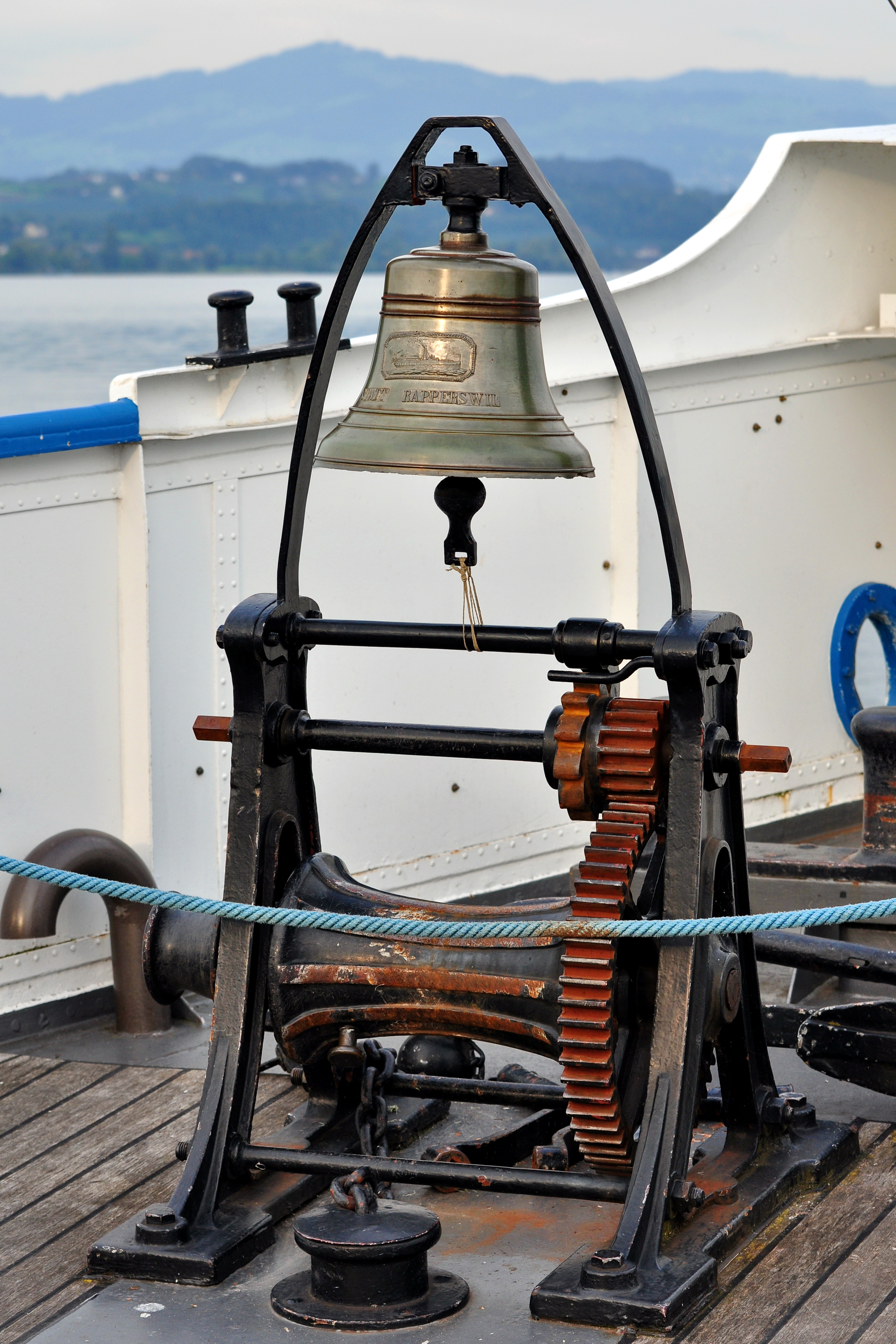 A ship's bell on top of a winch on the ZSG paddle steamer Stadt Rapperswil on Zürichsee (Lake Zürich) nearby Rapperswil (Switzerland), Bachtel mountain in the background.